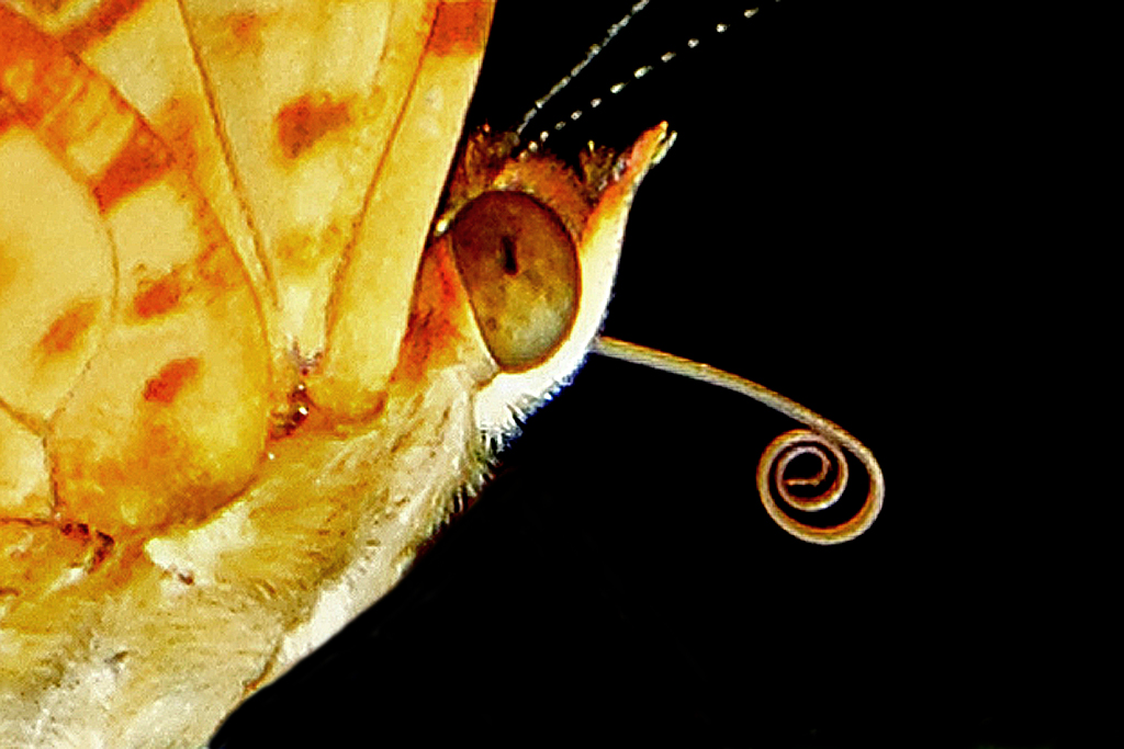 Proboscis of Butterfly